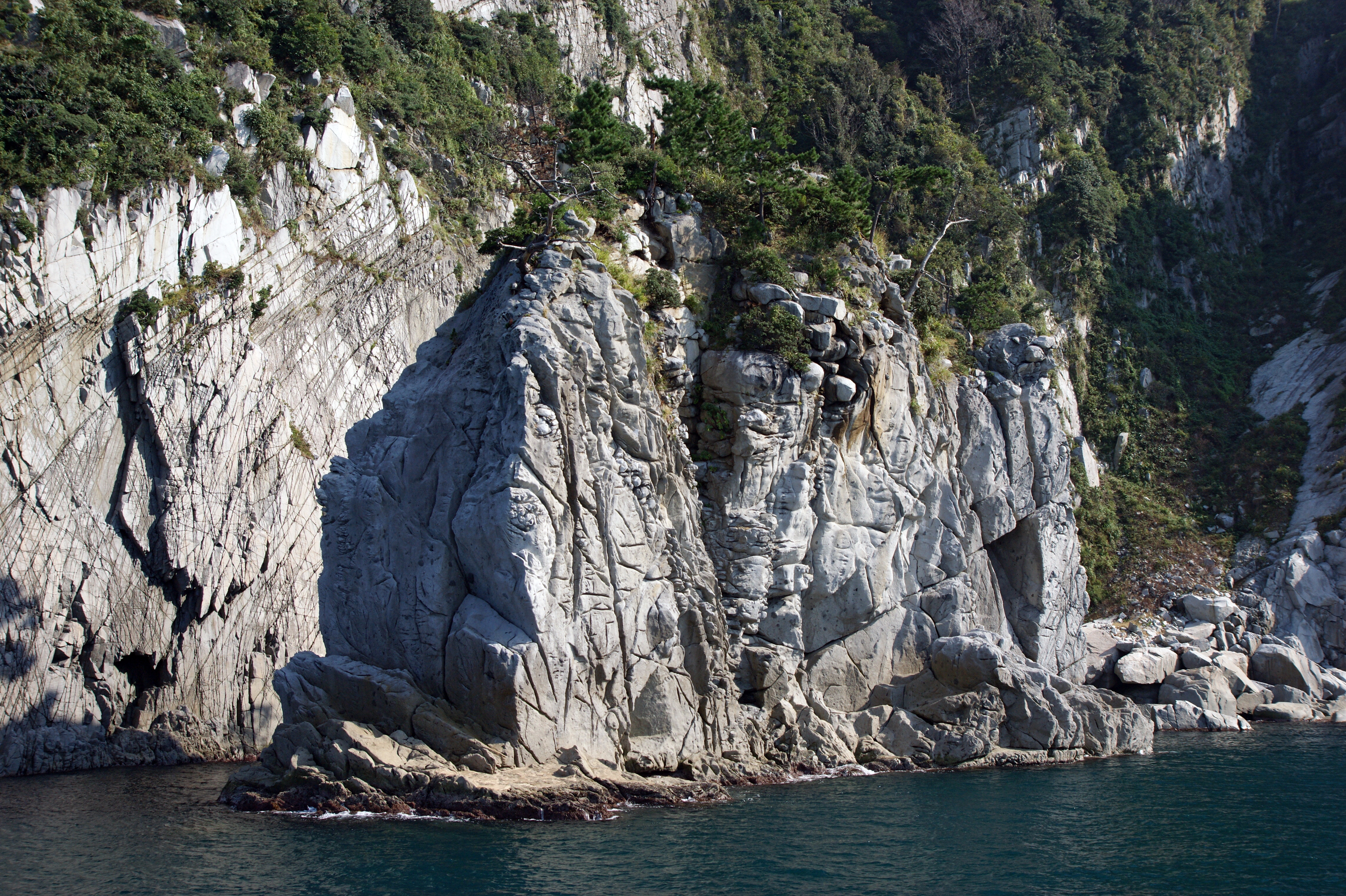 Sotomo, Obama, Fukui prefecture, Japan